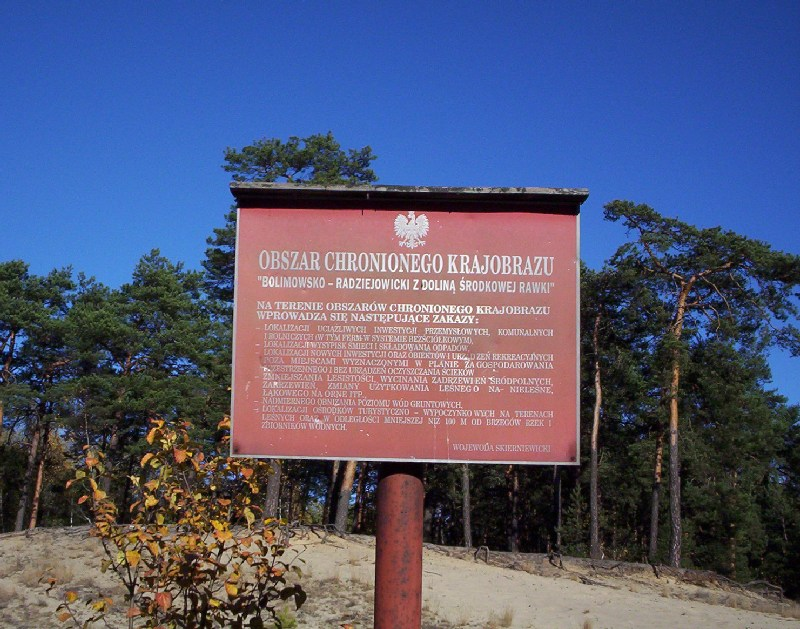 Plate of Obszar chronionego krajobrazu - "Bolimowsko-Radziejowicki z doliną Rawki". Dunes in Międzyborów, Poland.